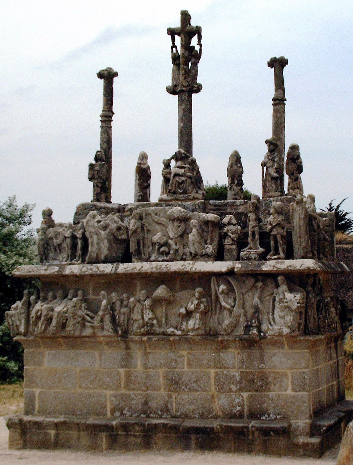 The calvary of the chapel of Our Lady of Tronoën (15th century)